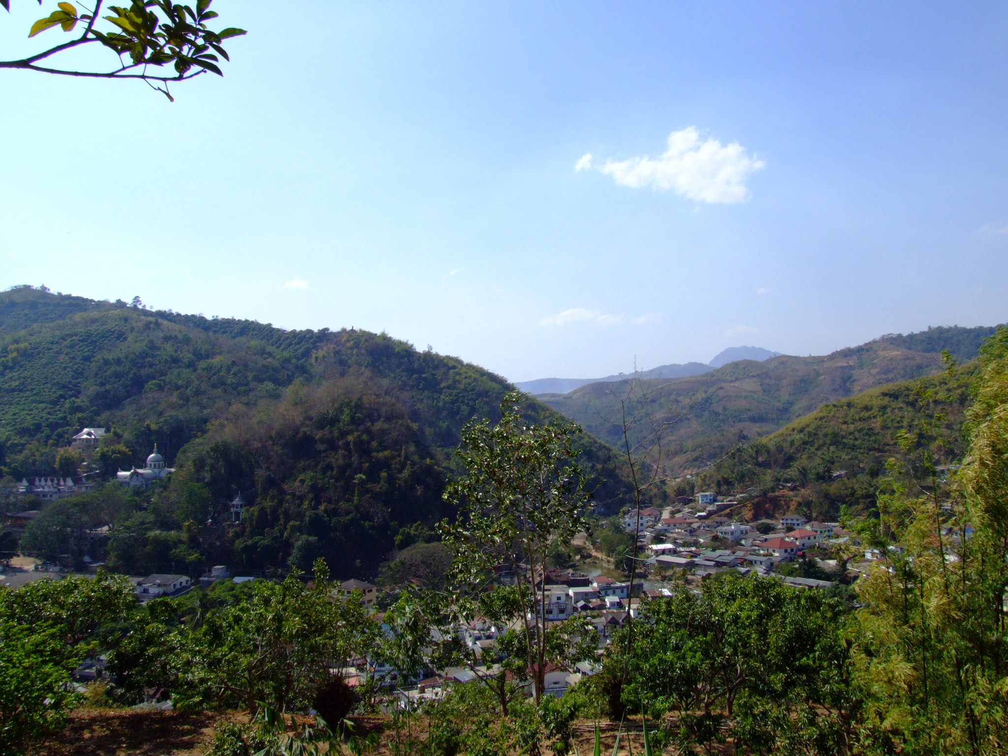 Wat Doiwao and the Daen Lao range, Thai highlands